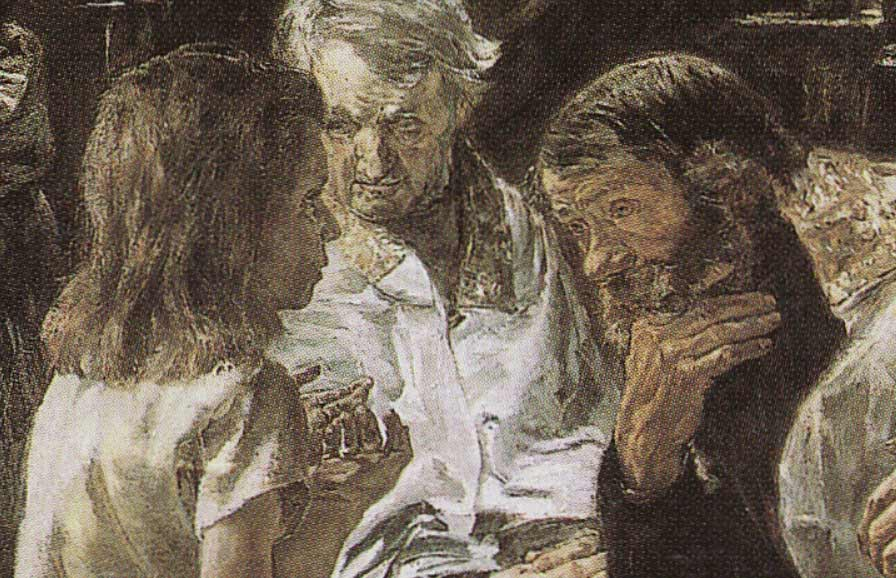 Detail from Jesus in the Temple (The 12-Year-Old Jesus in the Temple with the Scholars).